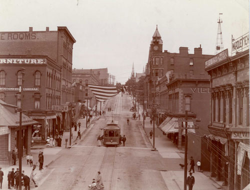 Front Street, Marquette, Michigan, United States